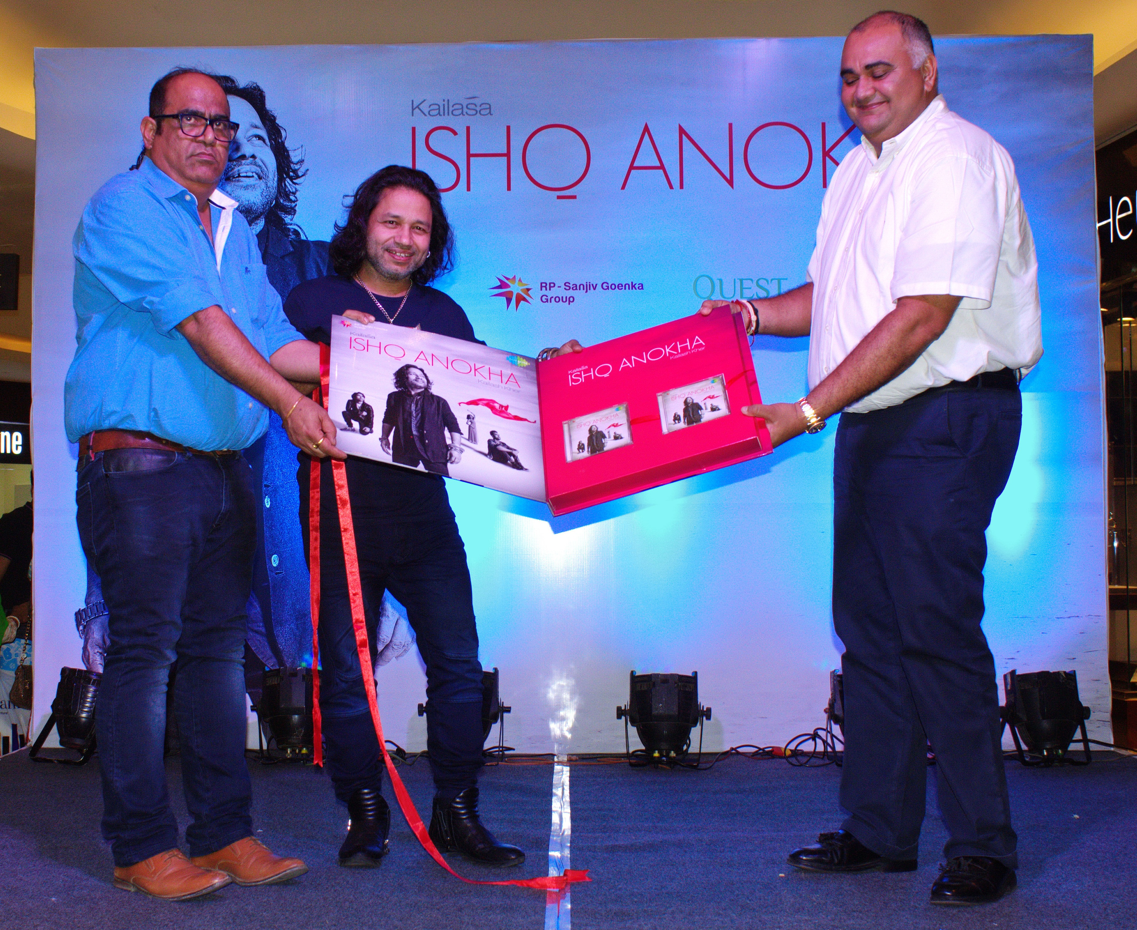 Kailash Kher launching Ishq Anokha in Kolkata